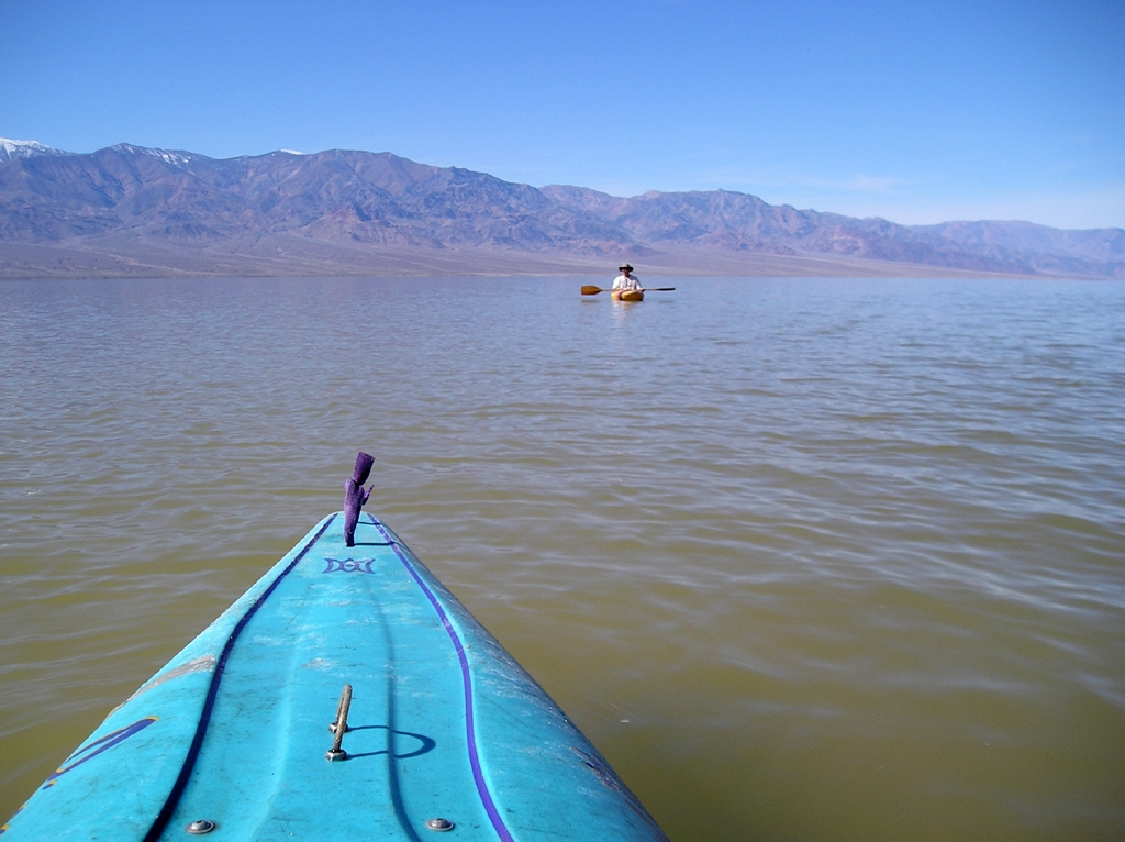 Rainwater draining into the lowest part of Badwater Basin (Death Valley National Park, California, US) creates a temporary lake.